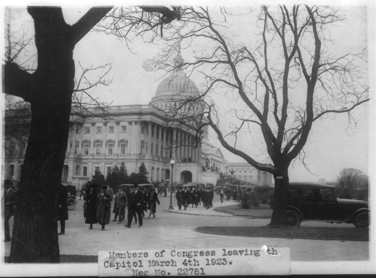 Title: Members of Congress leaving the Capitol, Washington, D.C. Abstract/medium: 1 photographic print.